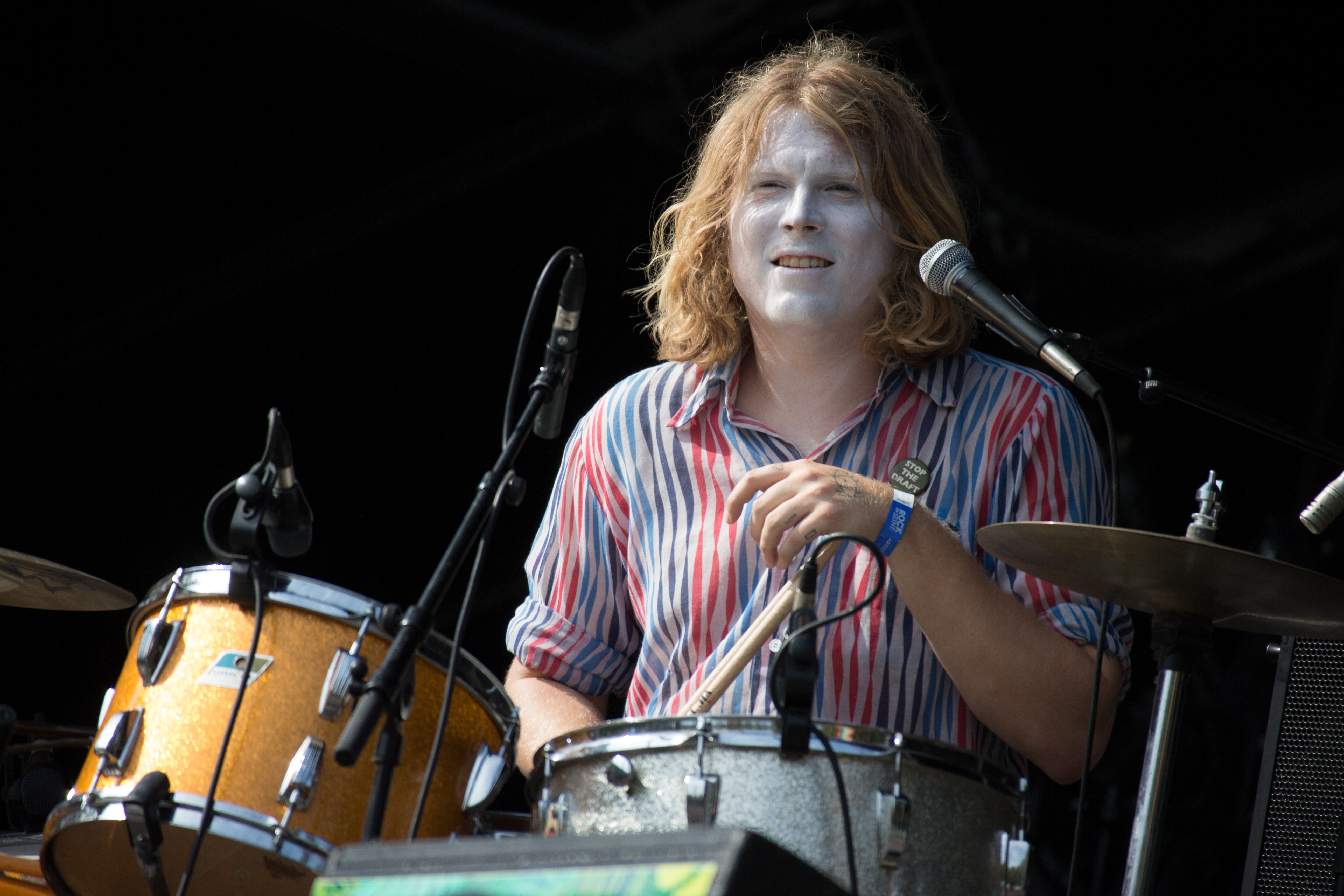 Ty Segall during a Fuzz concert at Rock en Seine 2015 (Paris).